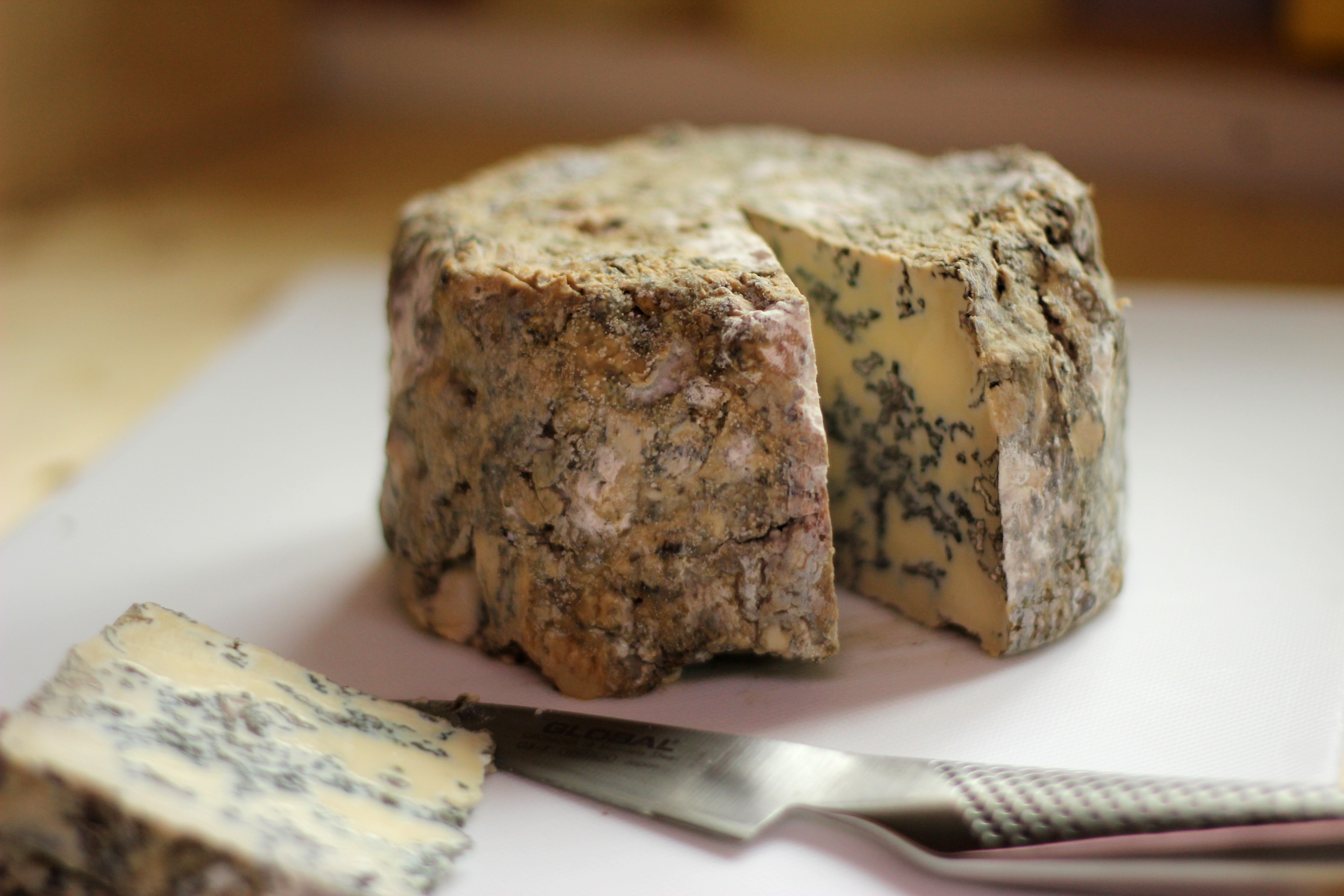 Homemade Stilton Blue Cheese from own farm in Fromage, England